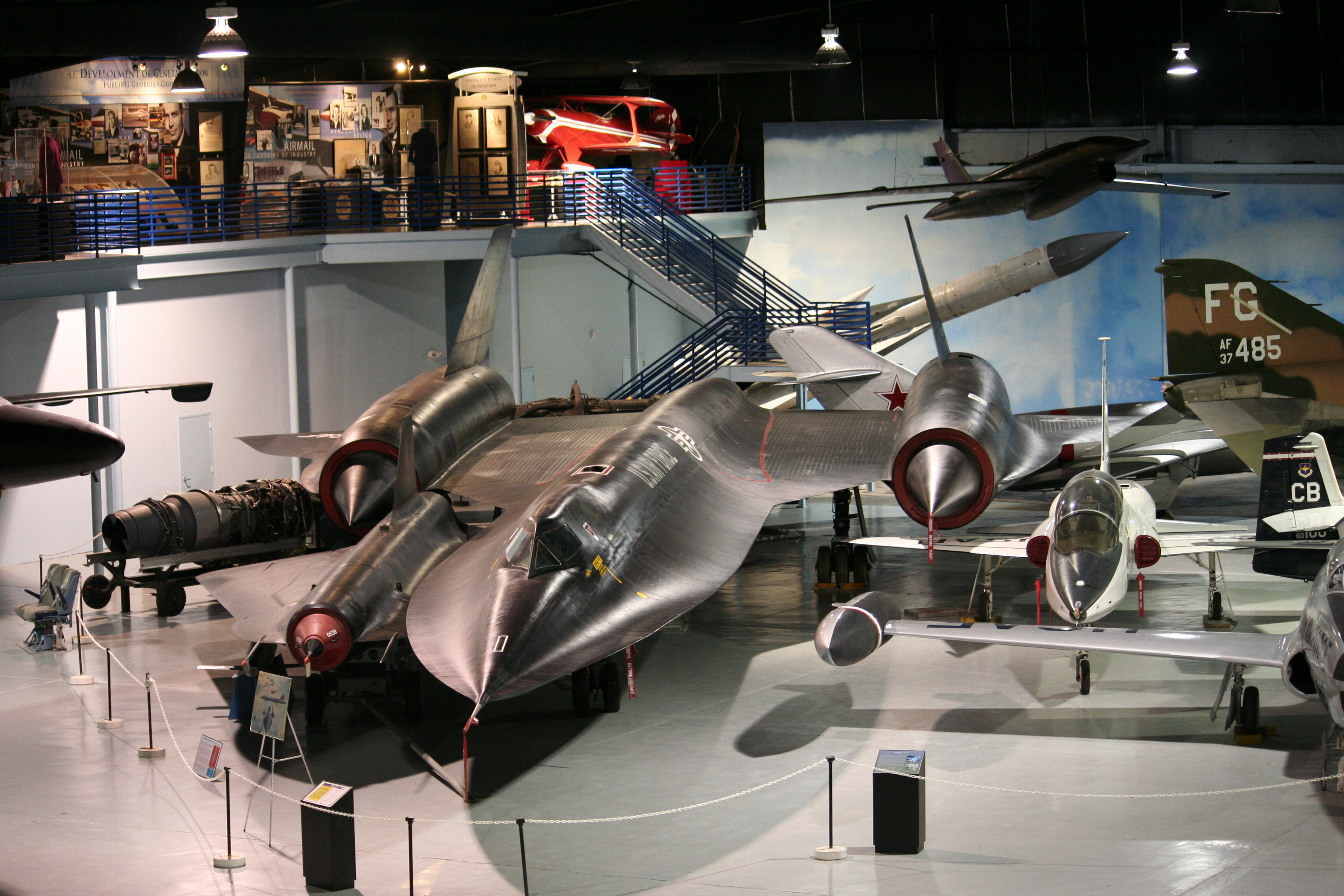 SR-71A Blackbird at Robins AFB Museum of Aviation